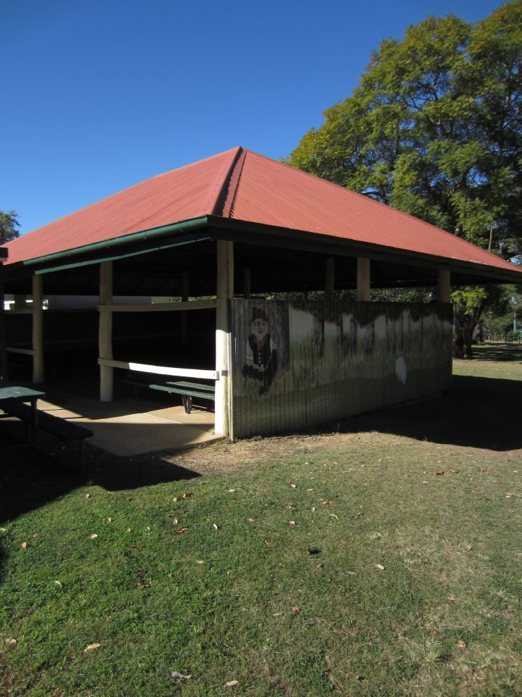 Mutdapilly State School playshed (2014)